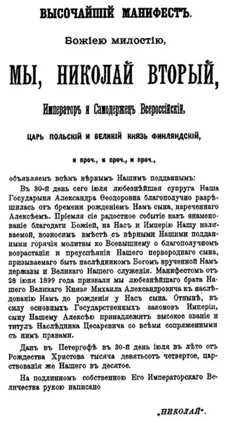 Manifest published on 1/13 August 1904 announcing the birth of the tsarevich Alexey Nikolaievich of Russia